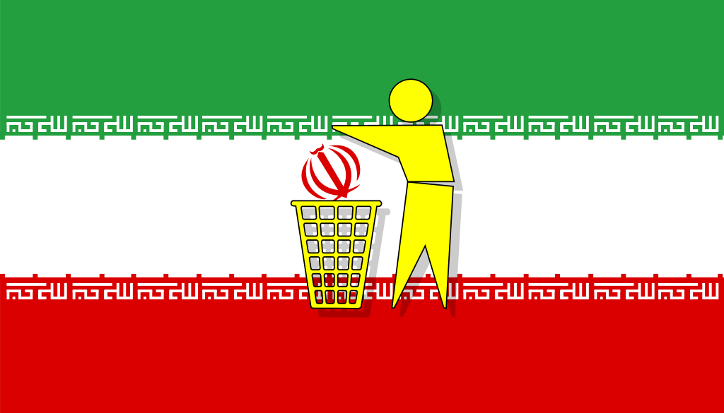 Combines post-Khomeini version of flag of Iran with "Tidyman symbol"...